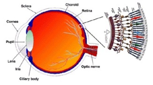 Microscopical anatomy of the retina.